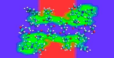 VMD visualization